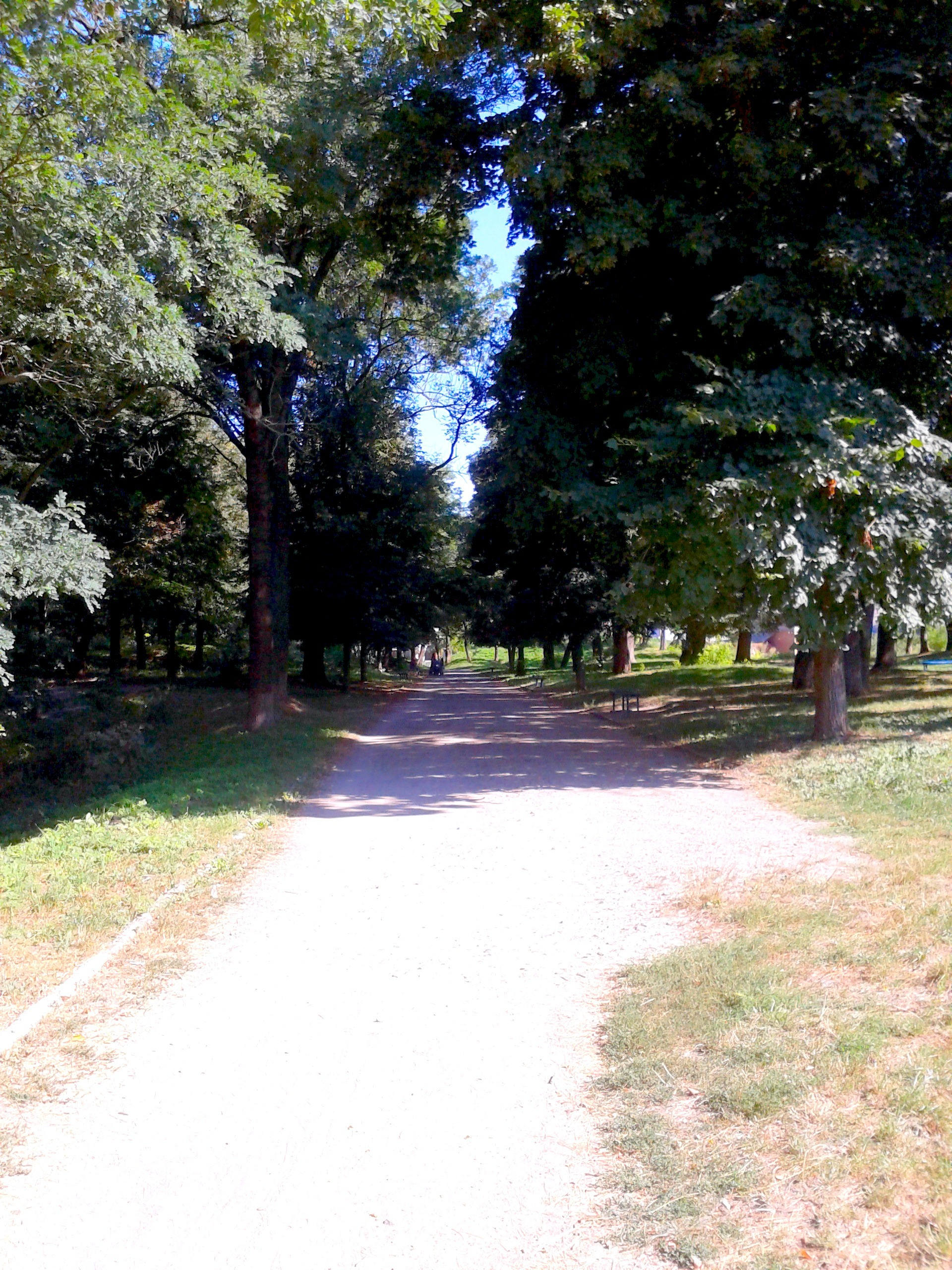 GREEN PARK AT OLD FORTRESS IN TOWN OF BAR VINNYTSIA REGION STATE OF UKRAINE: CENTRAL ALLEY